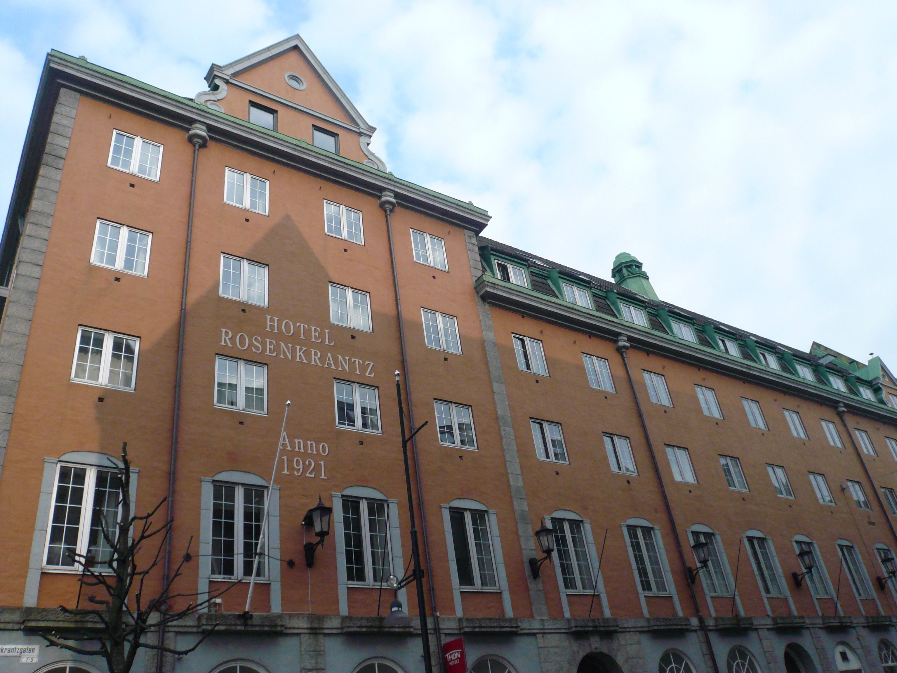 Hotel Rosenkrantz, Bergen Norway